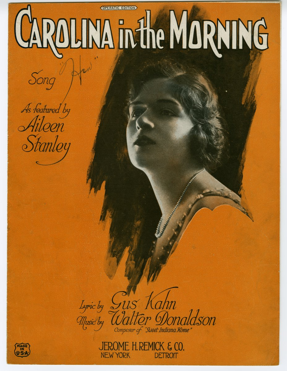 "Carolina in the Morning", 1922 sheet music cover, "Operatic Edition" with photo of singer Aileen Stanley